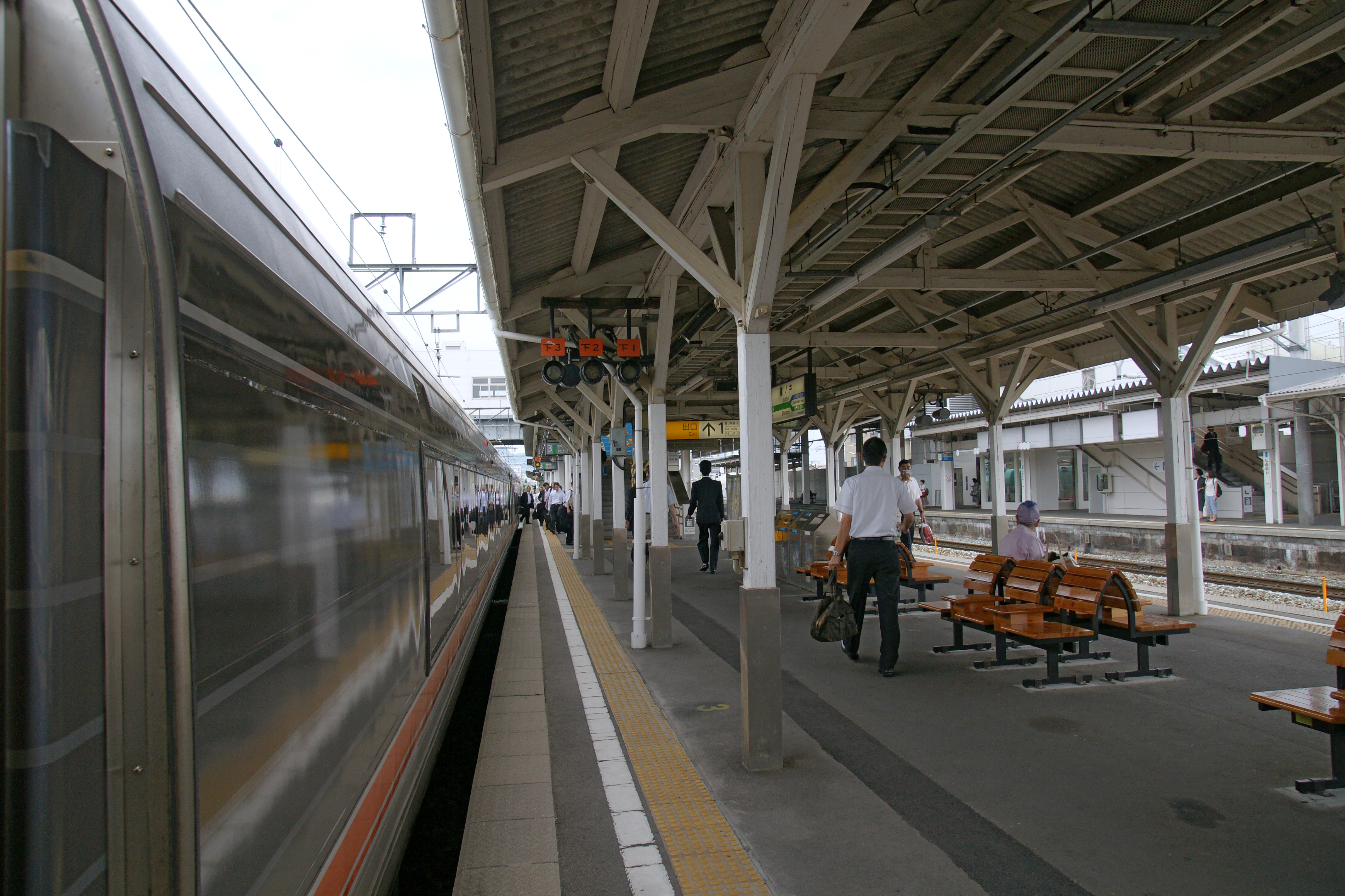 Shinonoi Station, Nagano, Nagano prefecture, Japan